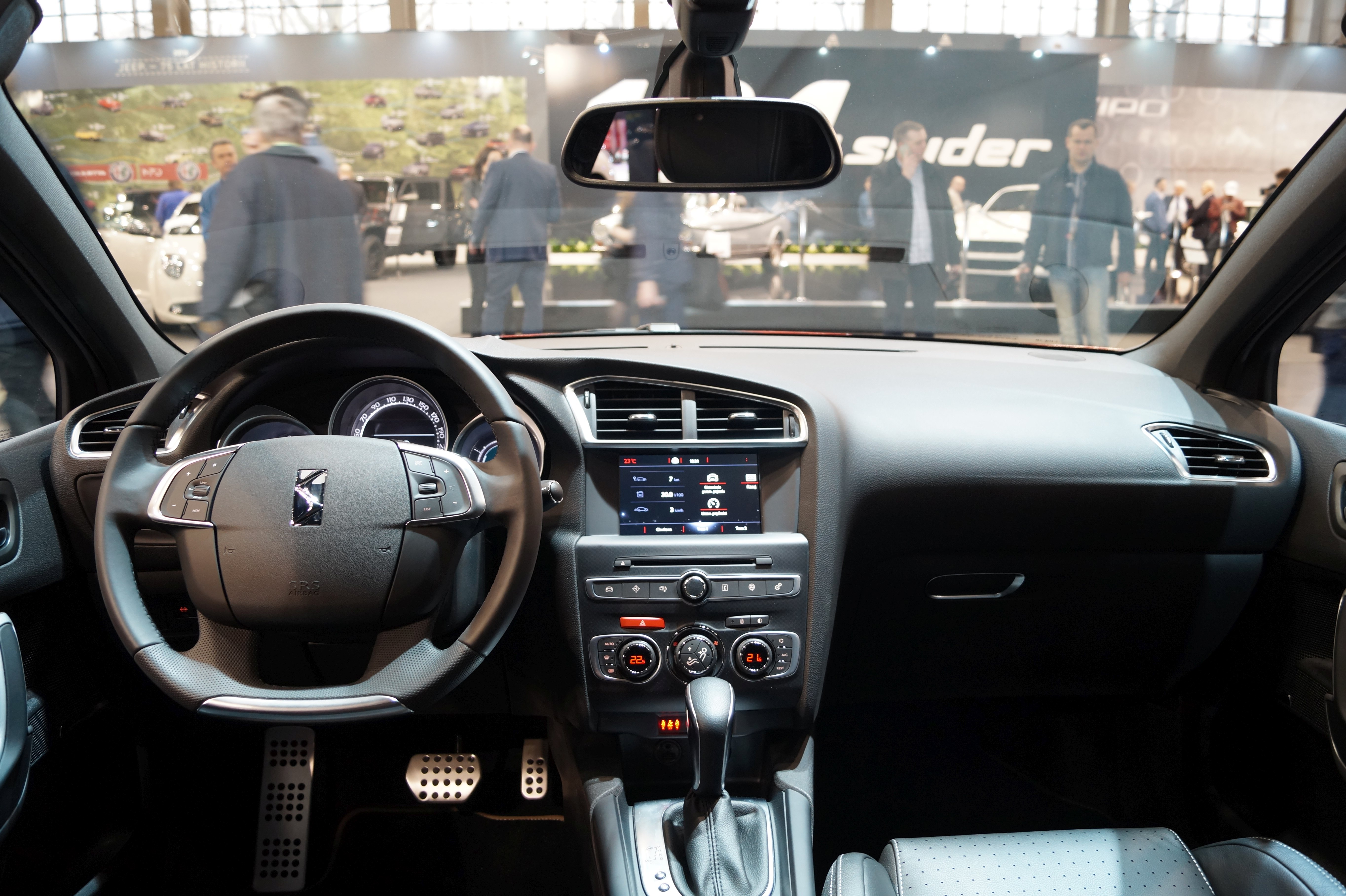 The making of this document was supported by Wikimedia Polska Association, within Wikigrant no. WG 2016-10. Wnętrze Citroëna DS4 na Motor Show Poznań 2016